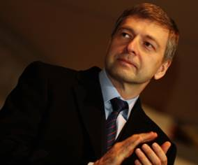 Dmitry Evgenevich Rybolovlev